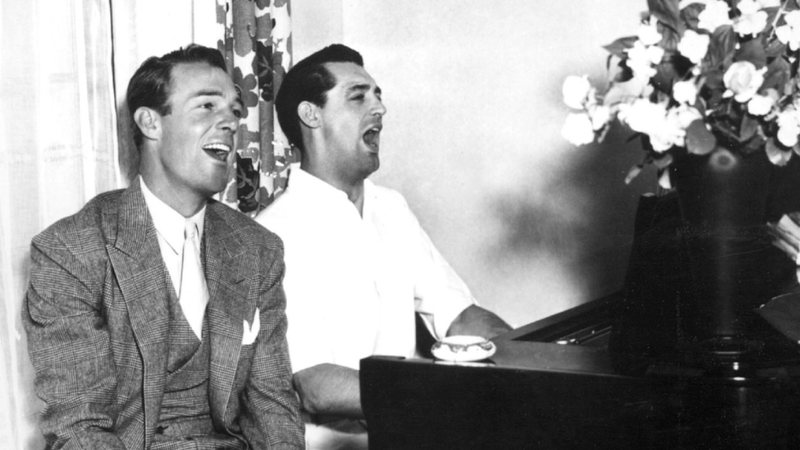 Photo of Randolph Scott and Cary Grant from the August 1933 issue of New Movie Magazine. Scott and Grant shared a house in Hollywood during the early years of their film work. Caption provided with the photo. "Cary Grant and Randolph Scott, bachelor pals and playmates, doing some barbershop chords in the house they occupy together, for the benefit of this magazine's cameraman," A copy of the page is provided for reference. Note that the uploaded photo is a better, larger copy of the one scanned from the magazine. A search was done for renewal in periodicals for the years 1960 and 1961. There were no listings for the title "New Movie Magazine". There's no evidence of continuing copyright on this magazine.